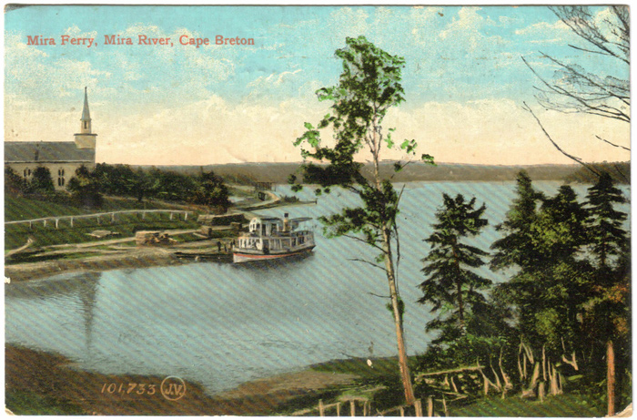 Mira Ferry, Nova Scotia, with the ferry on the Mira River, ca. 1900. Now known as Albert Bridge, Nova Scotia.